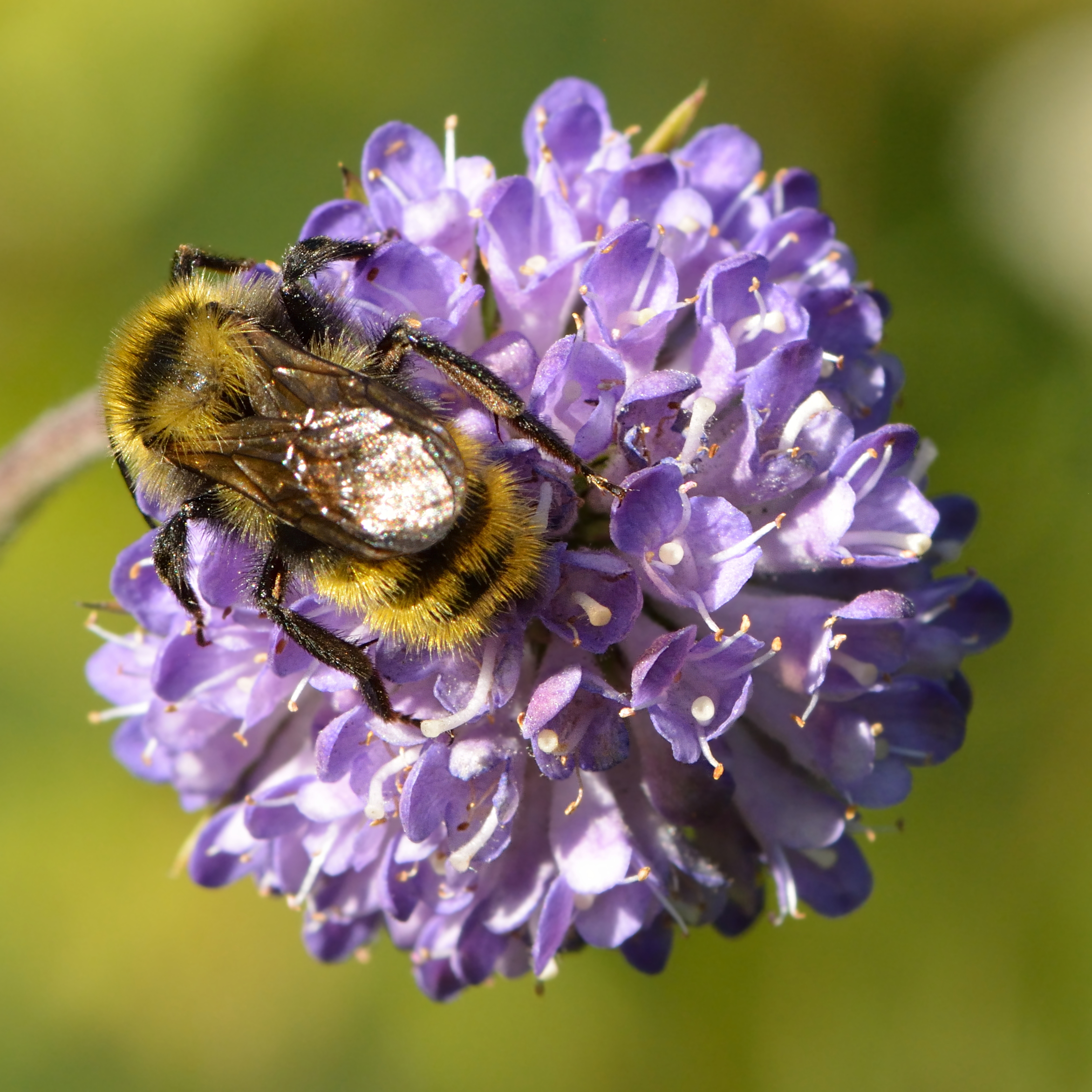 Male Field Cuckoo Bumblebee (Bombus campestris) on the Devil's-bit (Succisa pratensis). Keila, Northwestern Estonia.